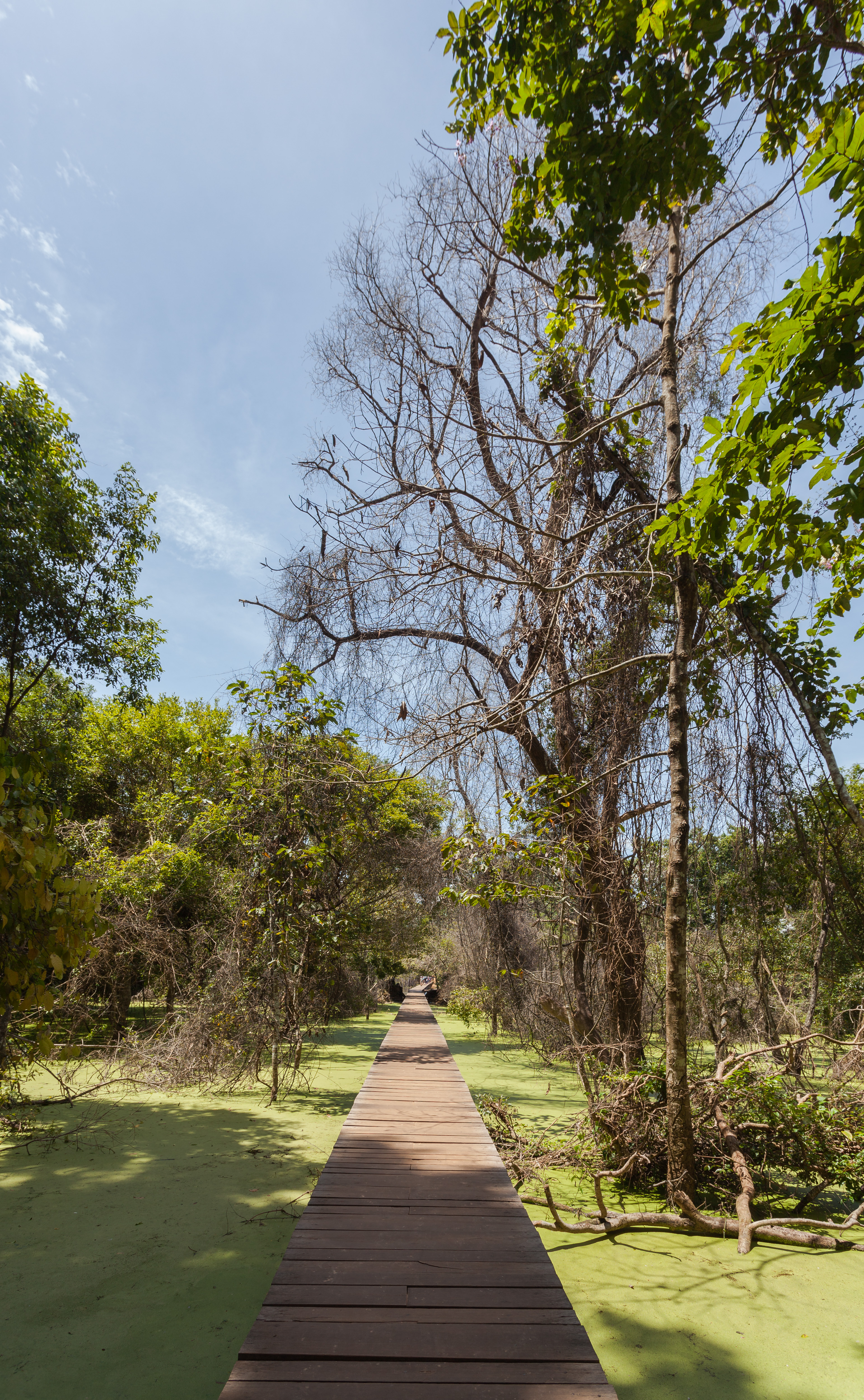 Neak Pean, Angkor, Cambodia